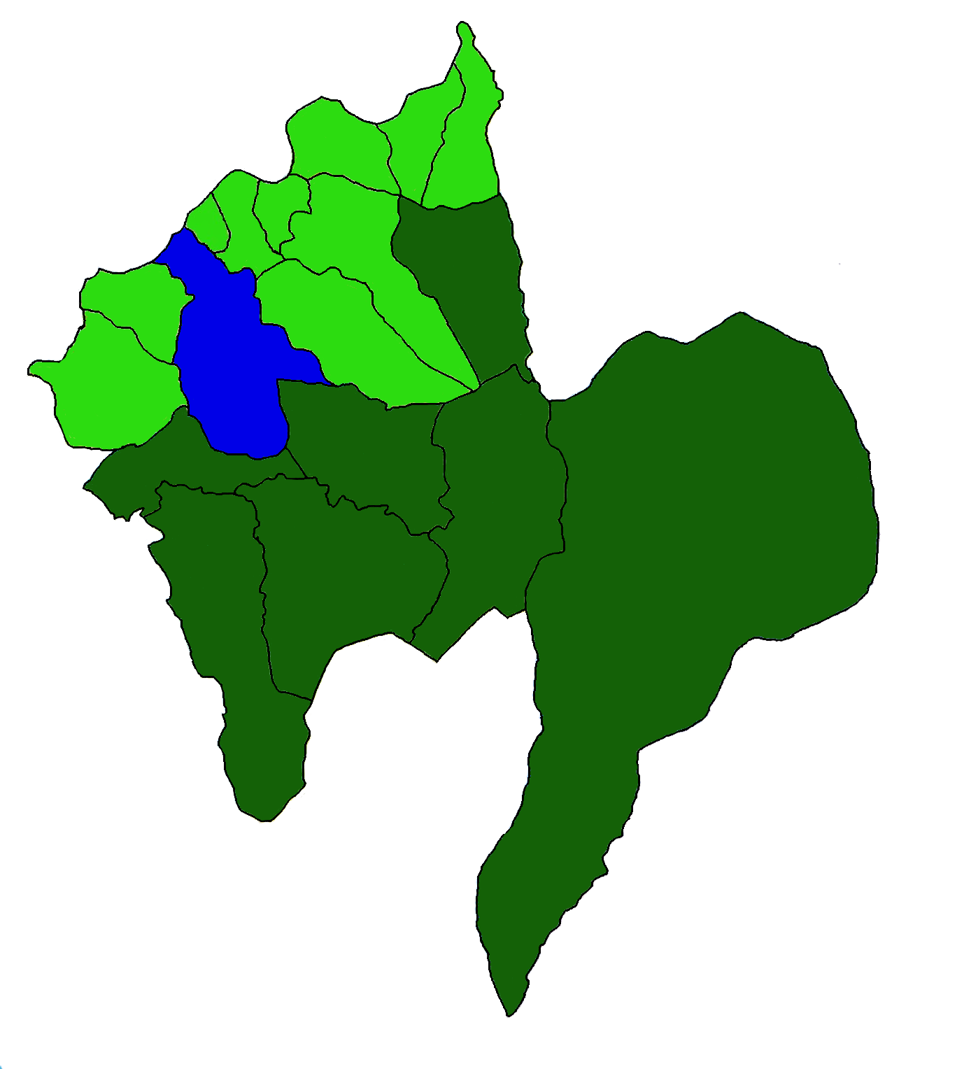 Map of Paderne in Melgaço, Portugal